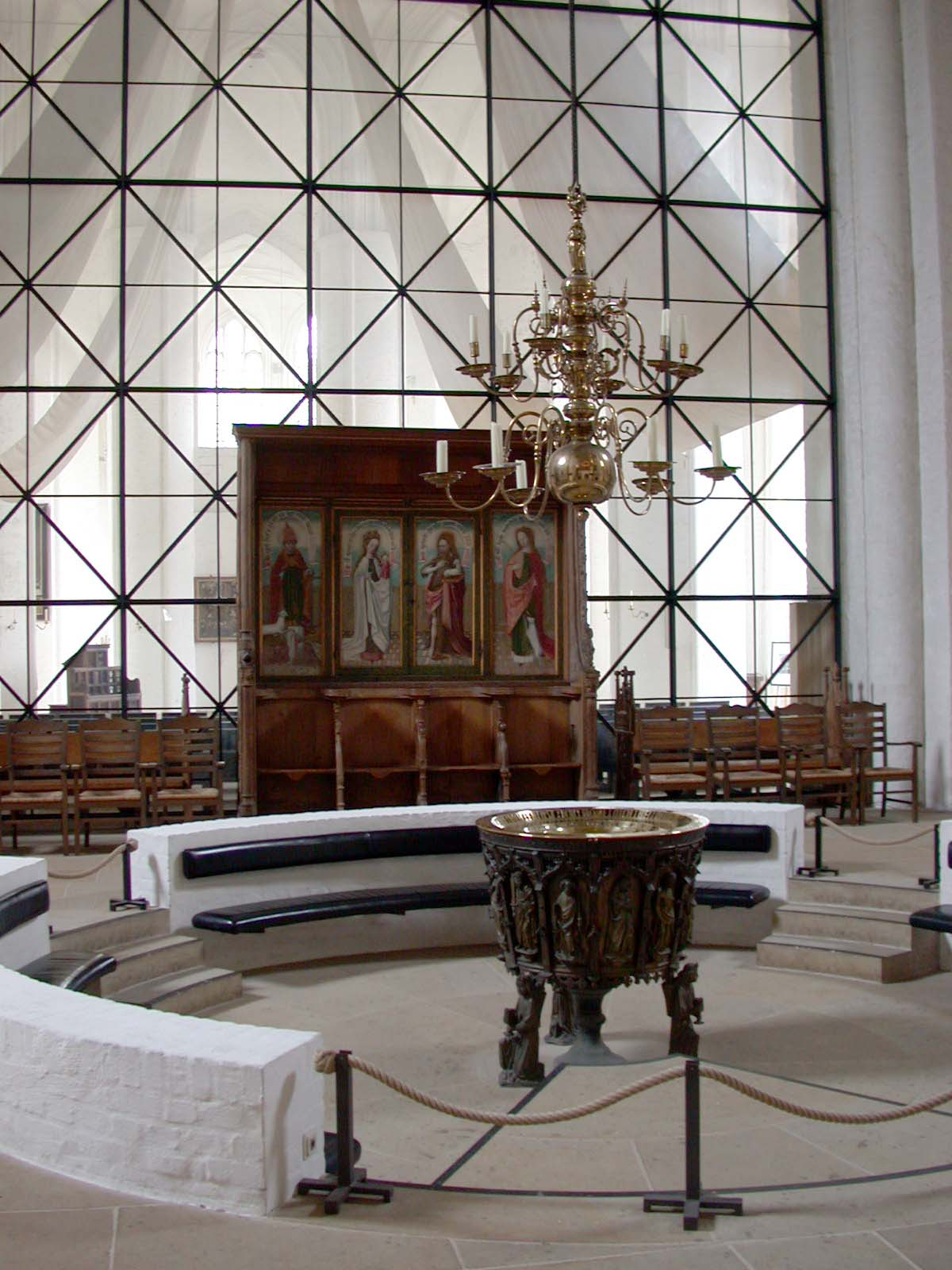 Babtistry of the Luebeck Cathedral